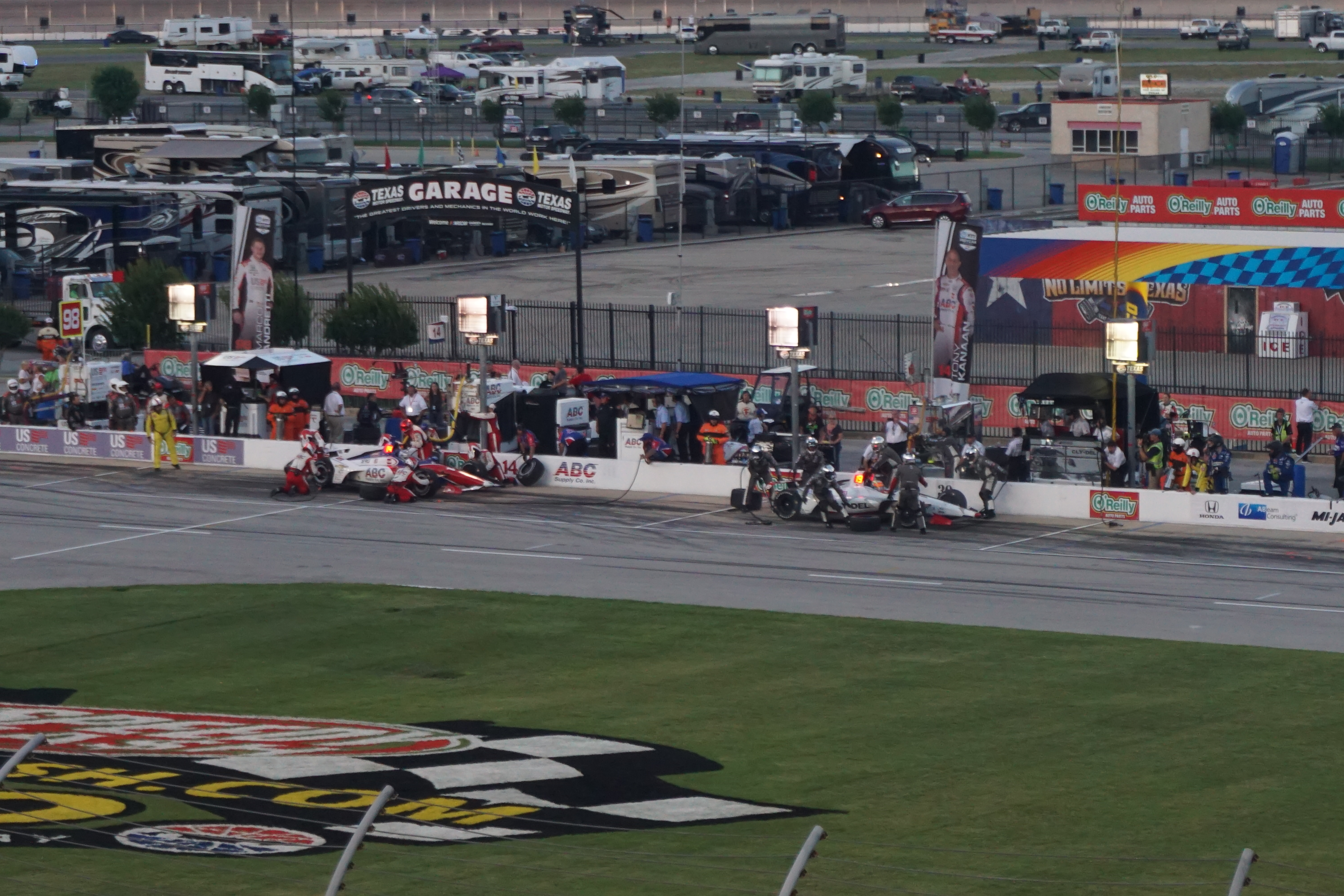 Tony Kanaan and Santino Ferrucci making pit stops during the 2019 DXC Technology 600 at Texas Motor Speedway in Fort Worth, Texas (United States).